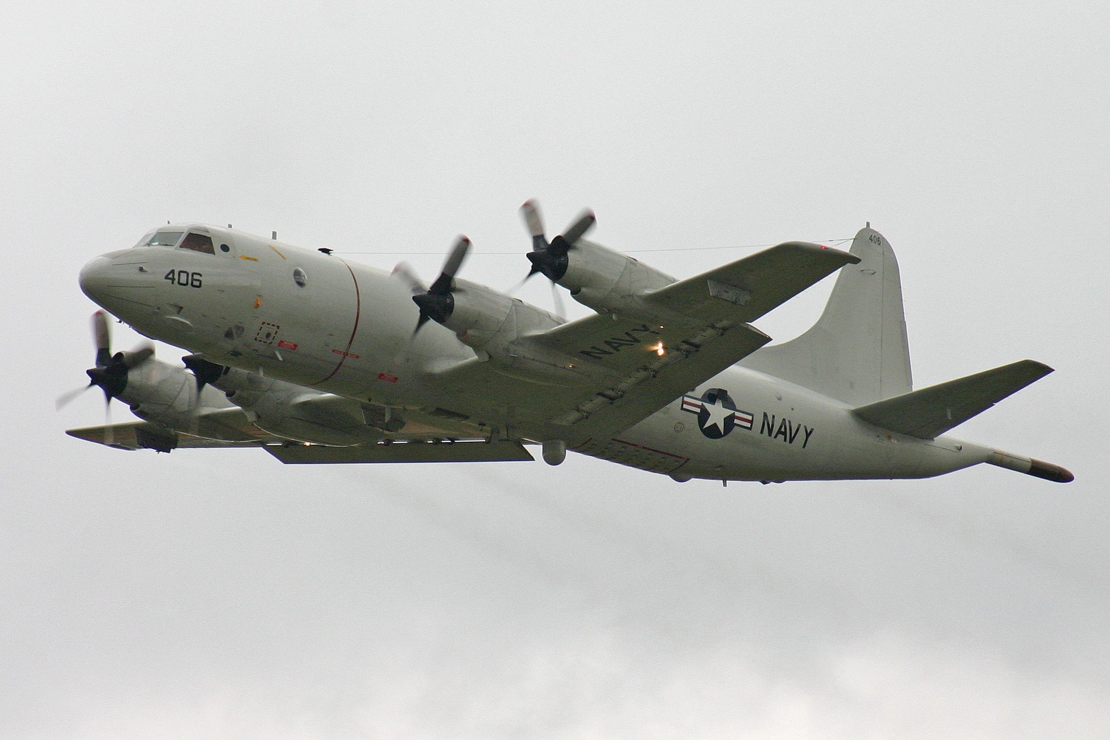 From US Navy VP-30. msn 5743. Departing RIAT Fairford. 18-7-2011